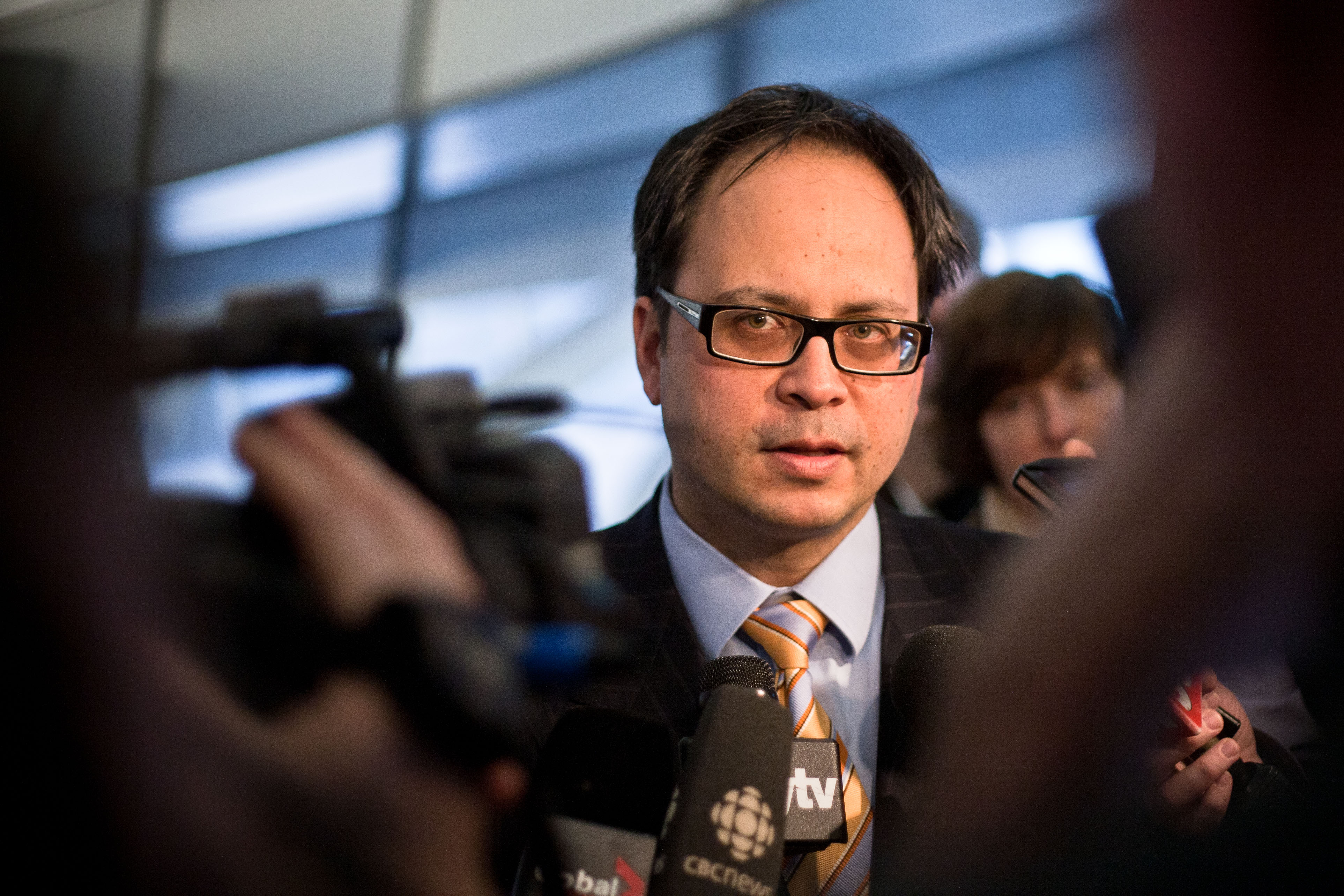 Denzil Minnan-Wong, a City Councillor in Toronto, Ontario, Canada, speaks to reporters about the recent labour union negotions.